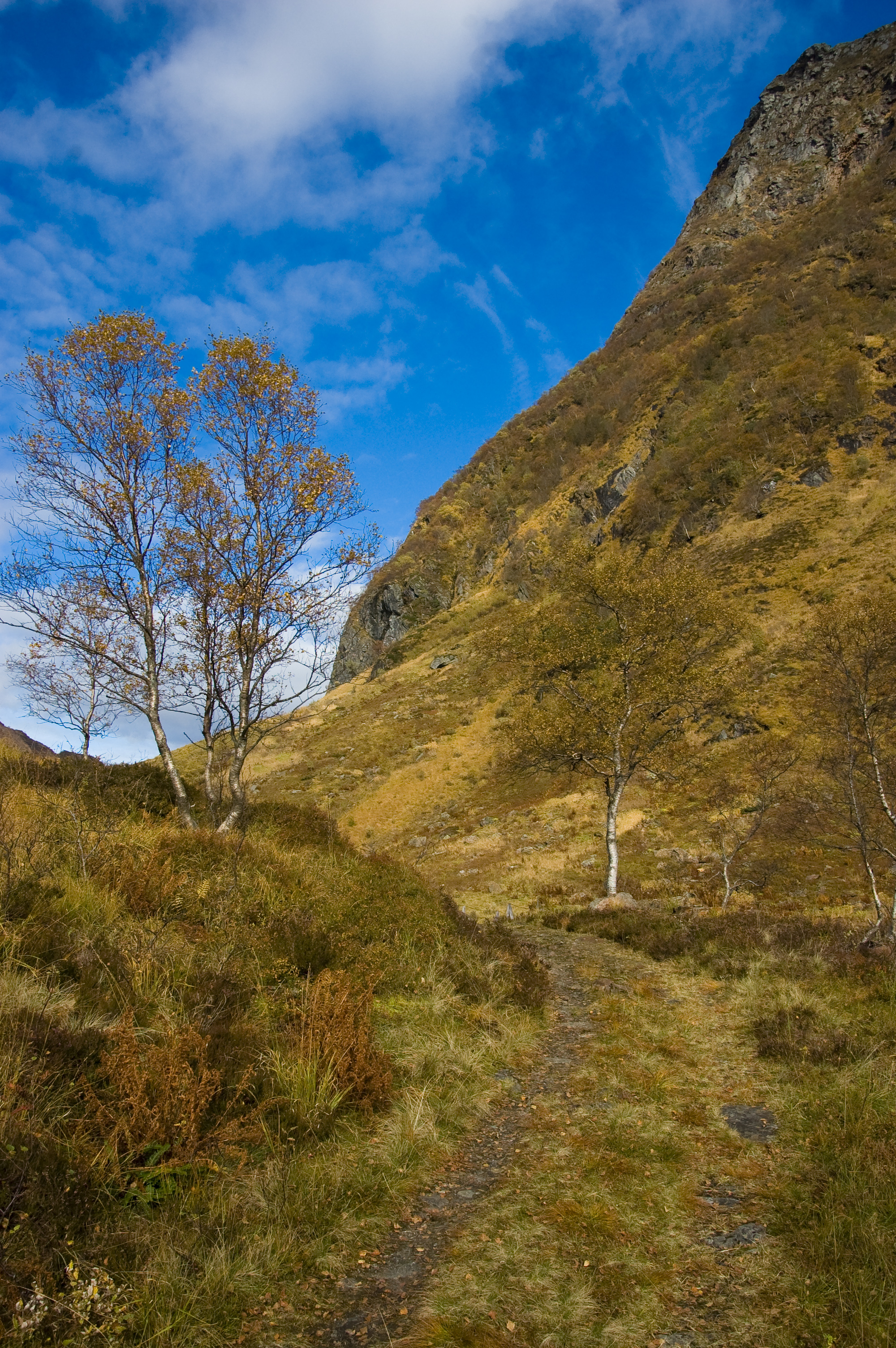 Landscape from the valley leading to Kvittingen in the municipality of Samnanger, Norway.